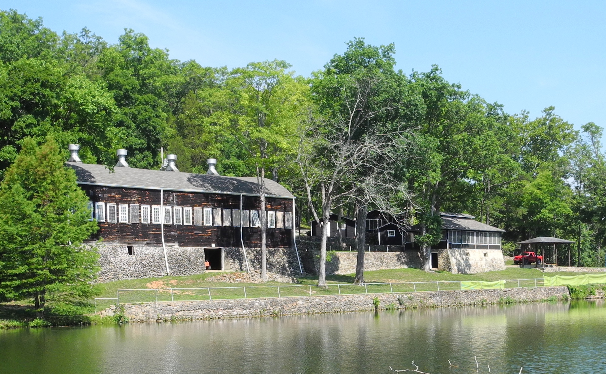 Historic buildings – gym, left, and barbeque house, right – of the Alton Club at Current River State Park in the Missouri Ozarks